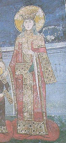 Helena of Bulgaria, wife of tsar Stefan Uroš IV Dušan of Serbia